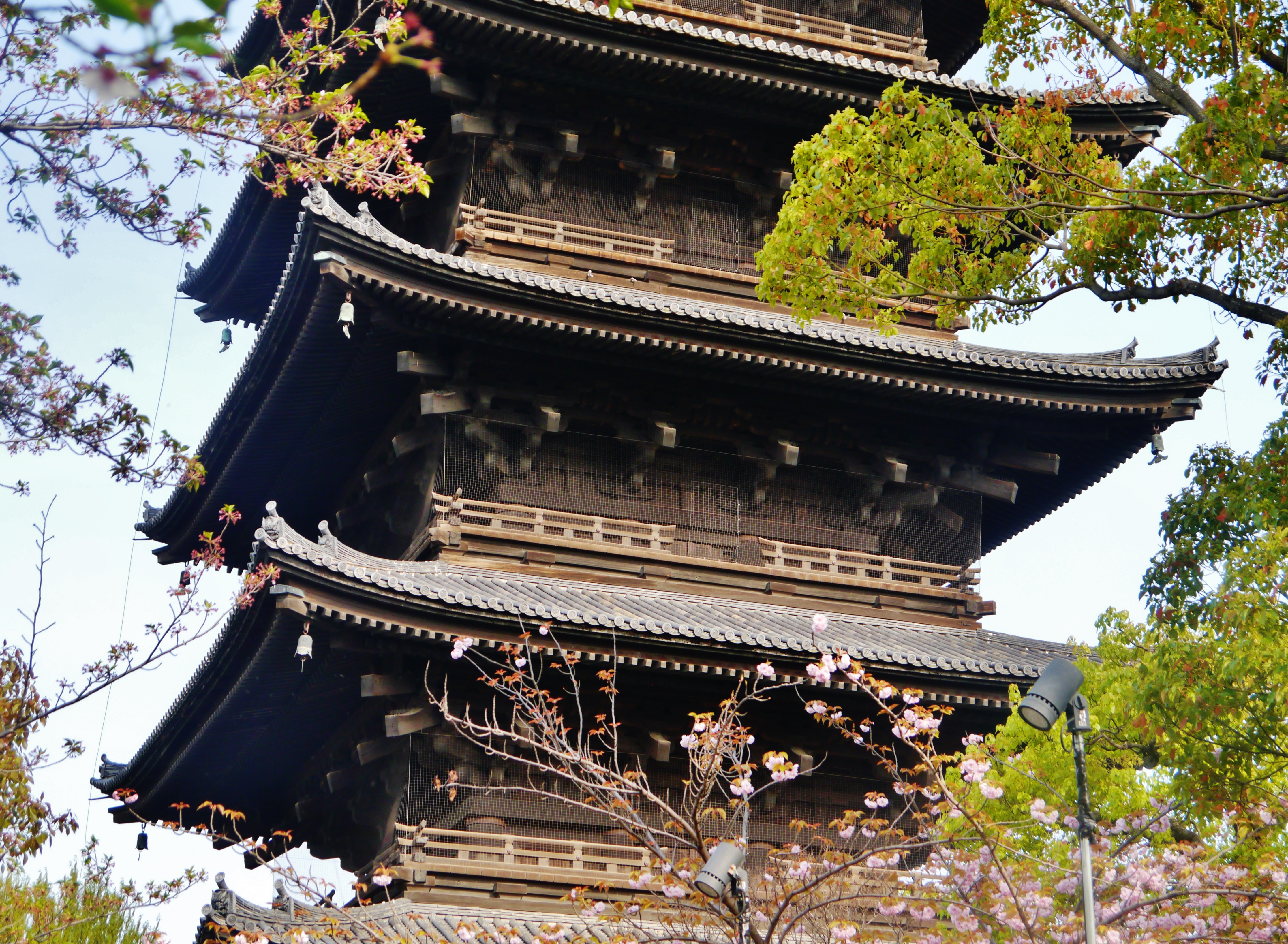 Pagoda of the Eastern Temple, Kyoto, Kyoto Prefecture, Kinki Region, Japan Panasonic Lumix DMC-G3